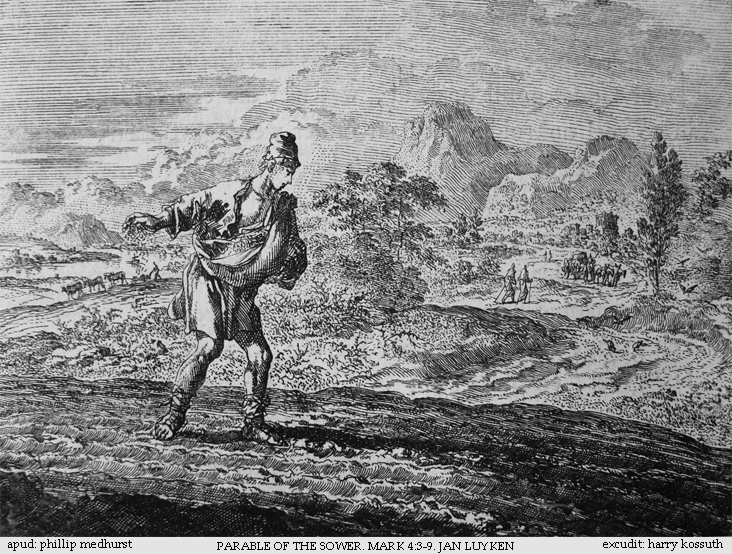 An etching by Jan Luyken illustrating Mark 4:3-9 in the Bowyer Bible, Bolton, England.